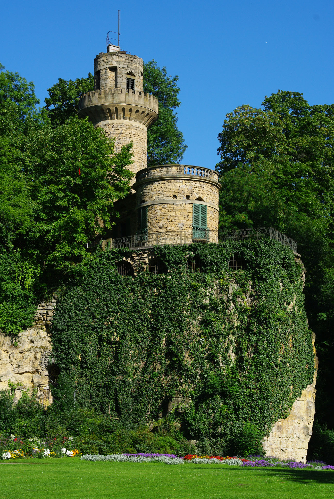 The Emichsburg (castle), seen from the west, in the Märchengarten (fairy tale garden) of the Blühende Barock in Ludwigsburg, Germany.